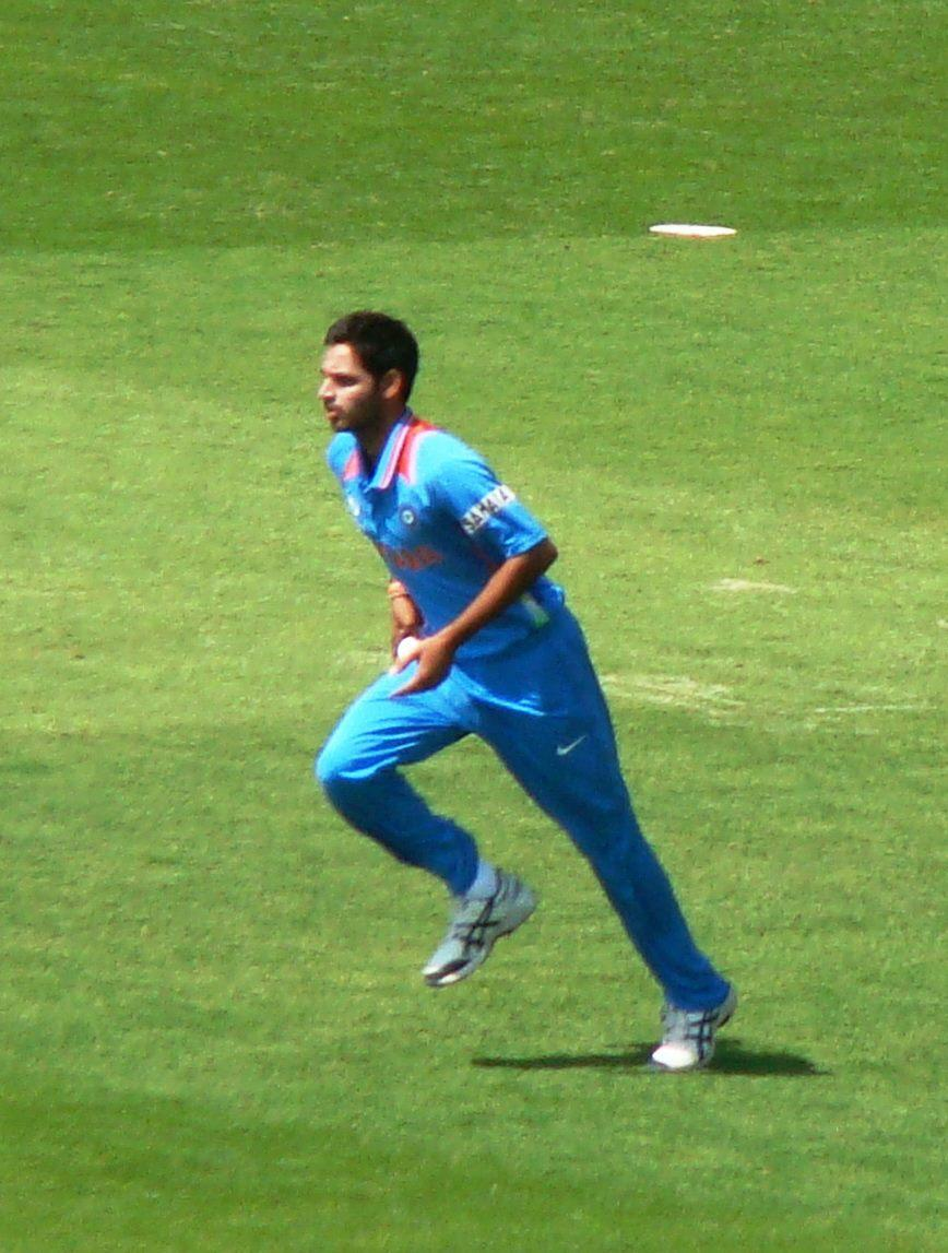 Bhuvneshwar Kumar in his delivery run-up during the 2013 Champions Trophy group stage match against South Africa.